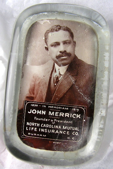 Photo by myself (Marie Ryan) of a vintage paperweight, circa 1919.